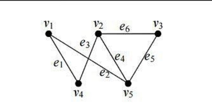 gra.image